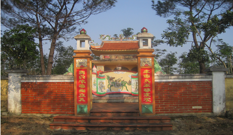 very good